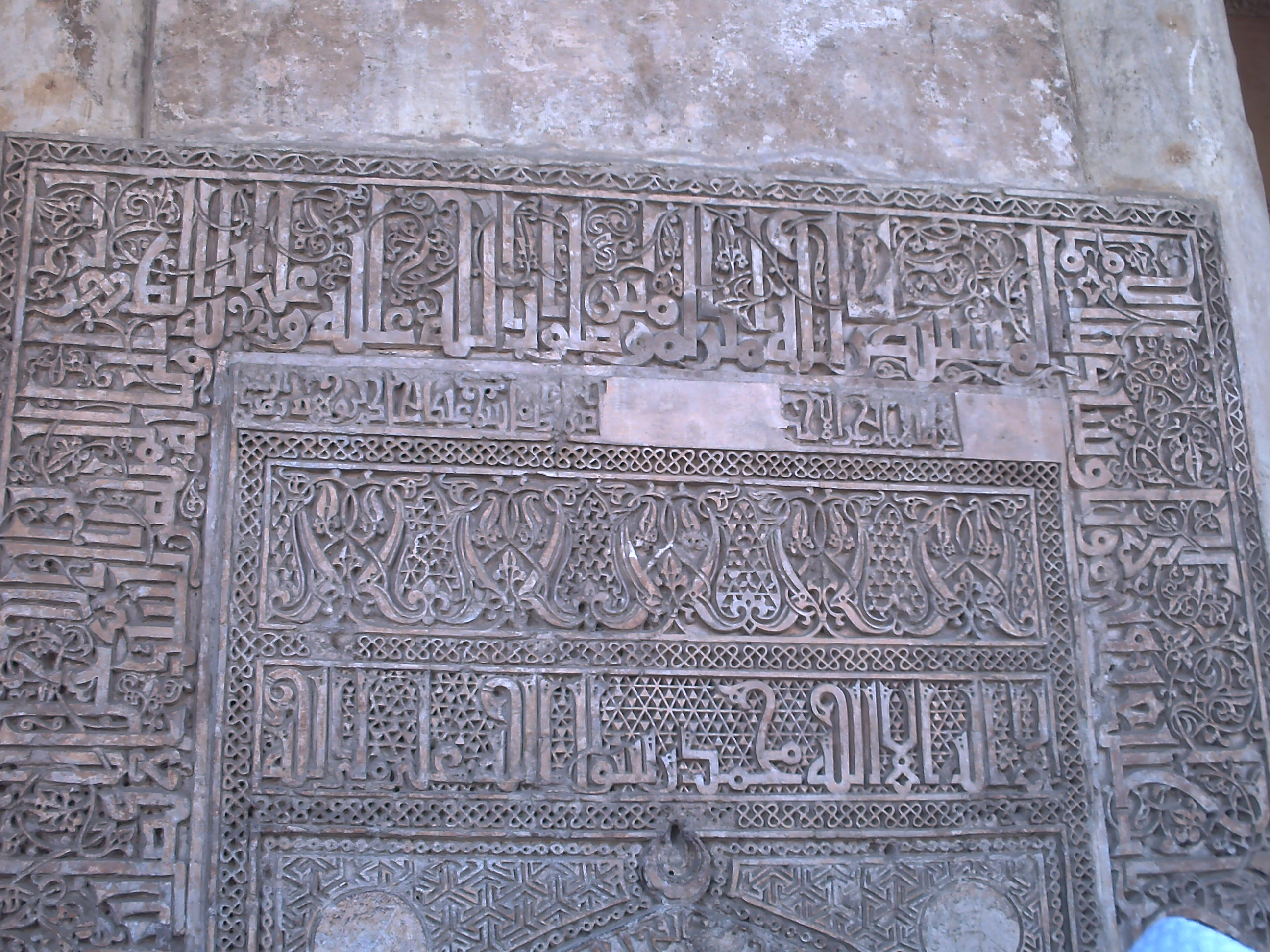 This is kalema-tut- sahadat 'la ilaha illalah" encrepted in the stone at kiblah of imam mustansir at fatemid era masjid at Cairo.The kalema 's wordings are'la ilaha illal lah mohammaun rasulullah Ali-yun-valiullah"